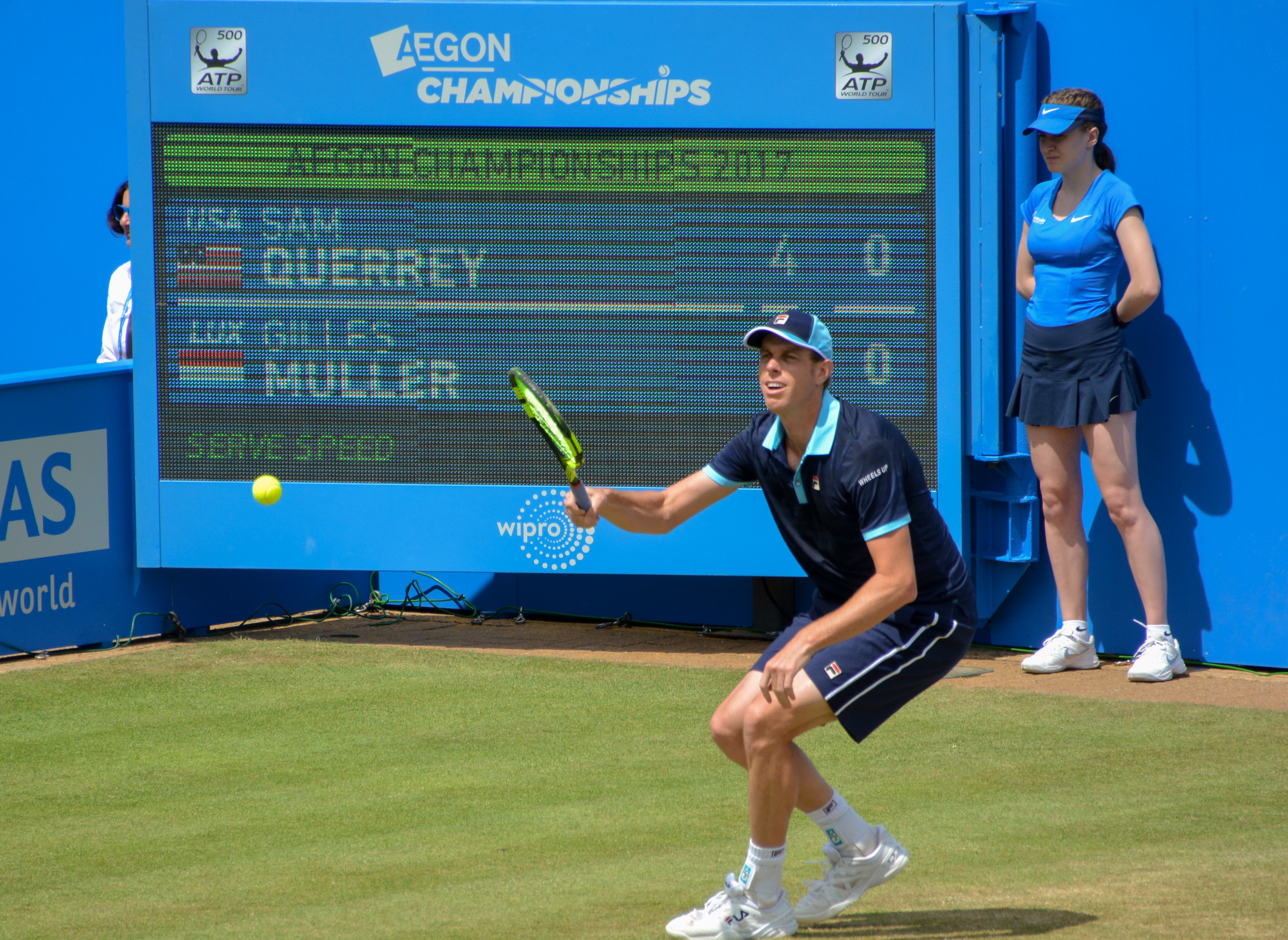 Aegon Championships 2017.